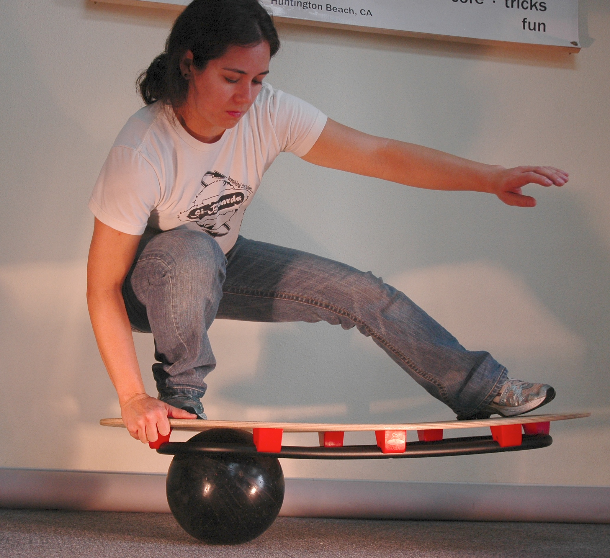 Elysia on a Si-Boards balance board. Board model is the Si-zmik (45" x 19") on a solid urethane ball (10" diameter, 20.5 pounds). See more information at Sphere-and-ring boards.